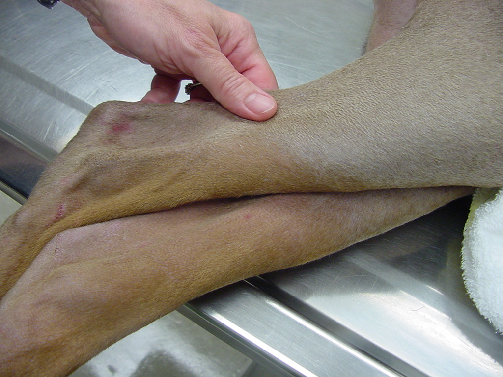 color dilution alopecia / follicular dysplasia in a fawn and tan doberman; tan color points are spared